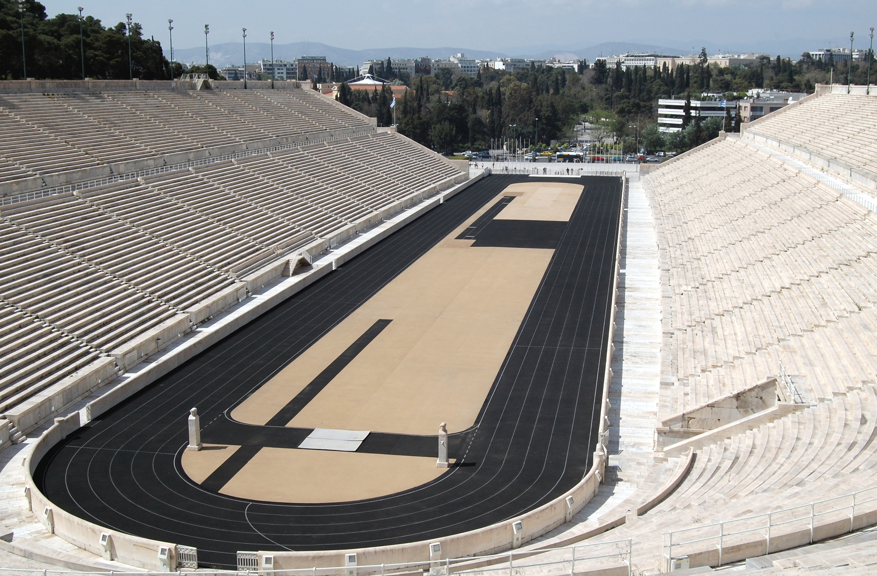 The Panathinaiko Stadium in Athens, Greece, looking southwest.